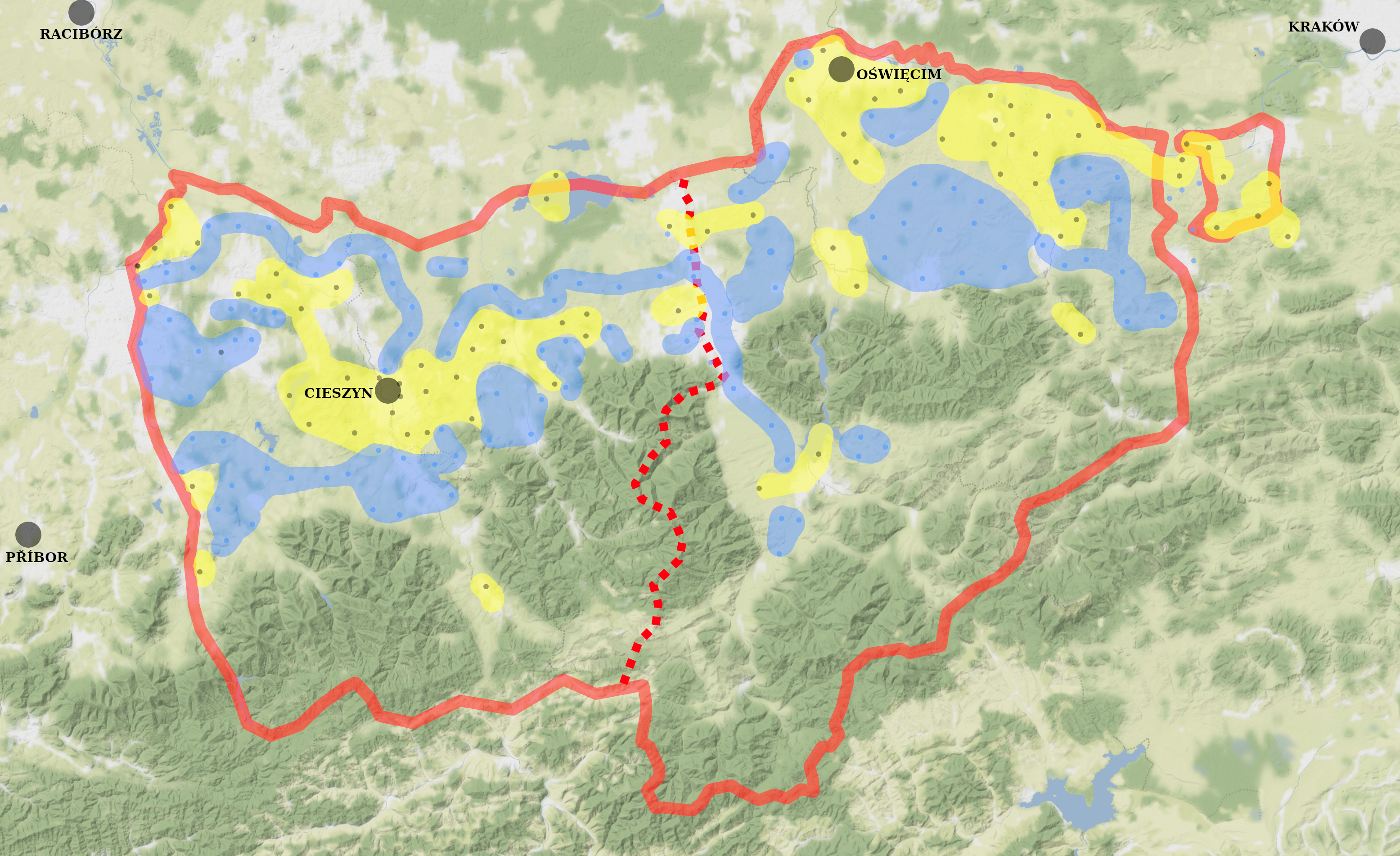 A sorf of a combination of my two previous files: File:Kasztelania cieszyńska osadnictwo.png and File:Kasztelania Oświęcimska osadnictwo w XIIIw.png based on the same sources, updated to a period of the combined Duchy of Teschen-Auschwitz under Mieszko I (1290-1314). At that time an extensive colonisation on the German law took place (blue). Background is Stamen Terrain from